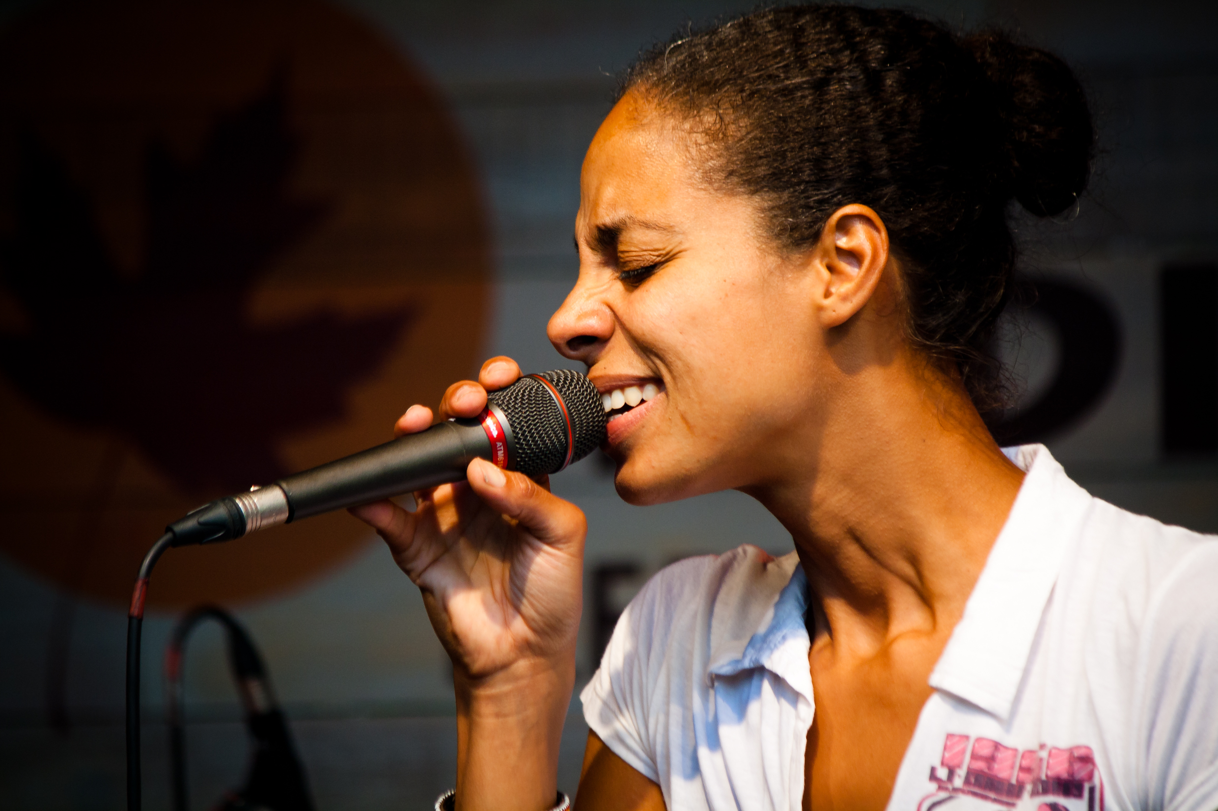 Astrid North in Hamburg Indian Summer Fleetinseln 15.09.2012.